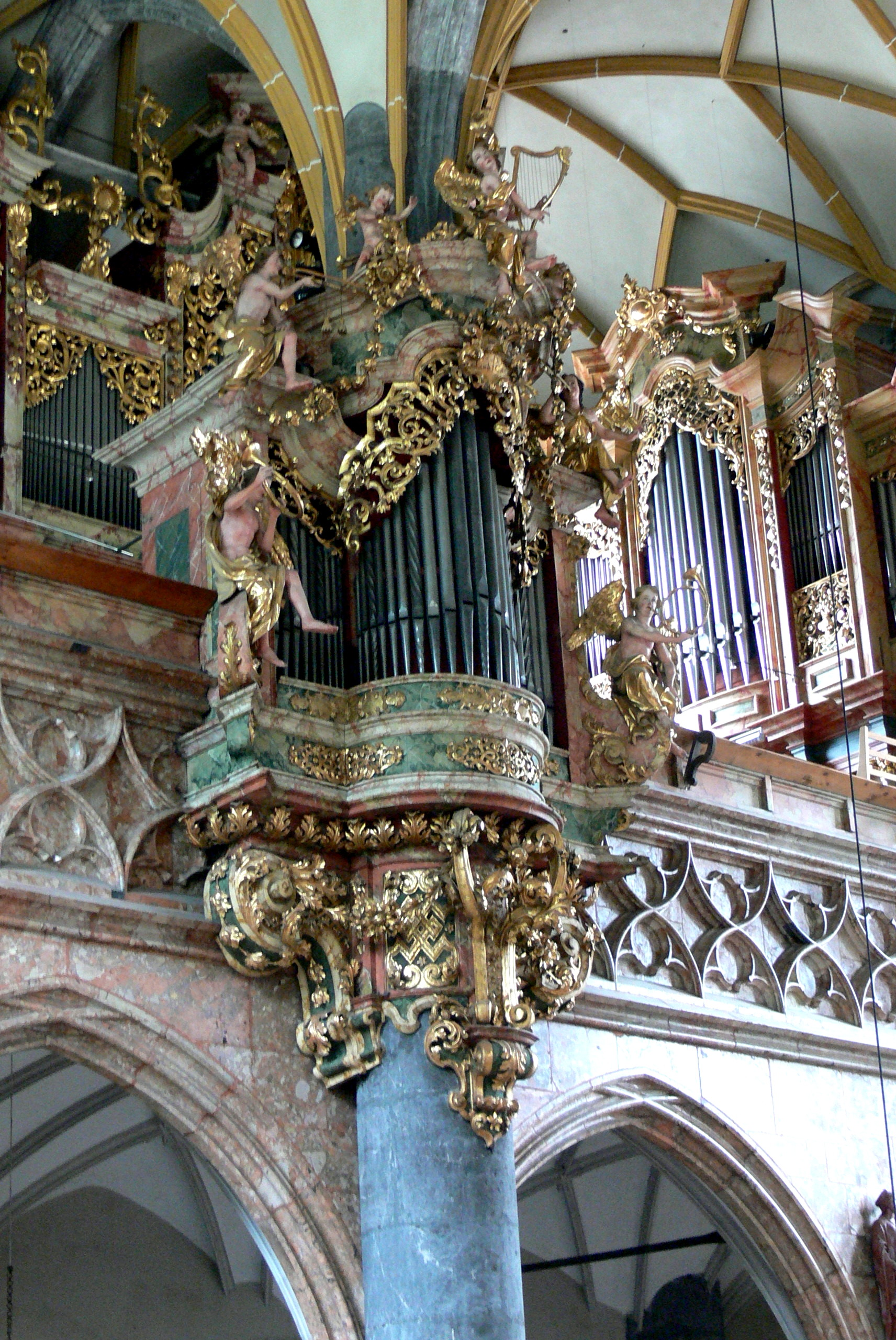 Schwaz ( Tyrol ). City parish church: Baroque organ ( 1730s ).